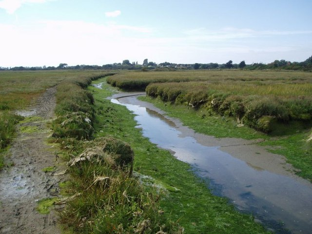 Pagham Harbour creek. This creek was filling with the incoming tide